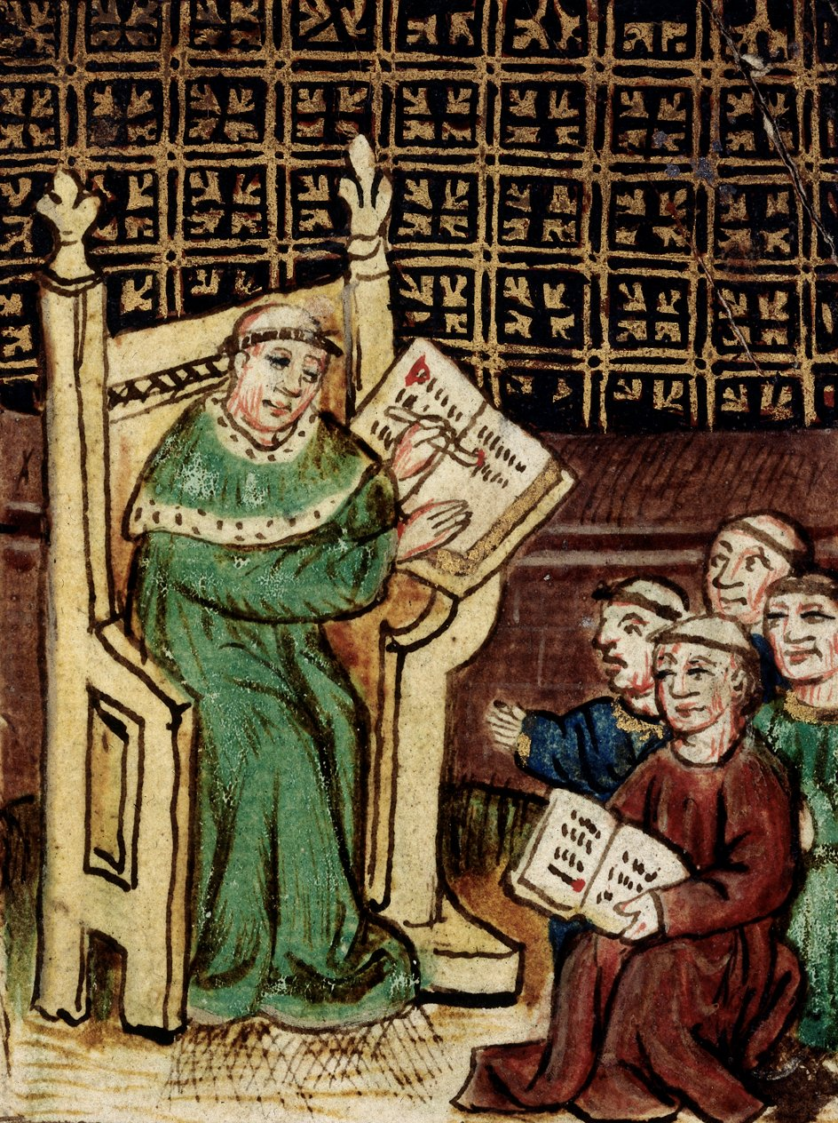 Detail of a miniature of a master and scholars.